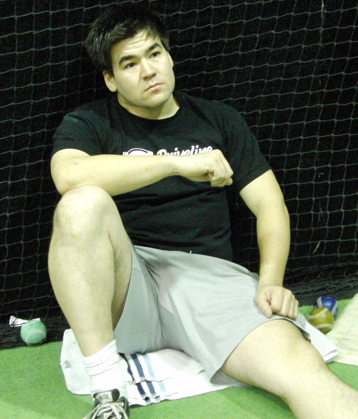 A 2009 photo of baseball pitching trainer and consultant Kyle Boddy.